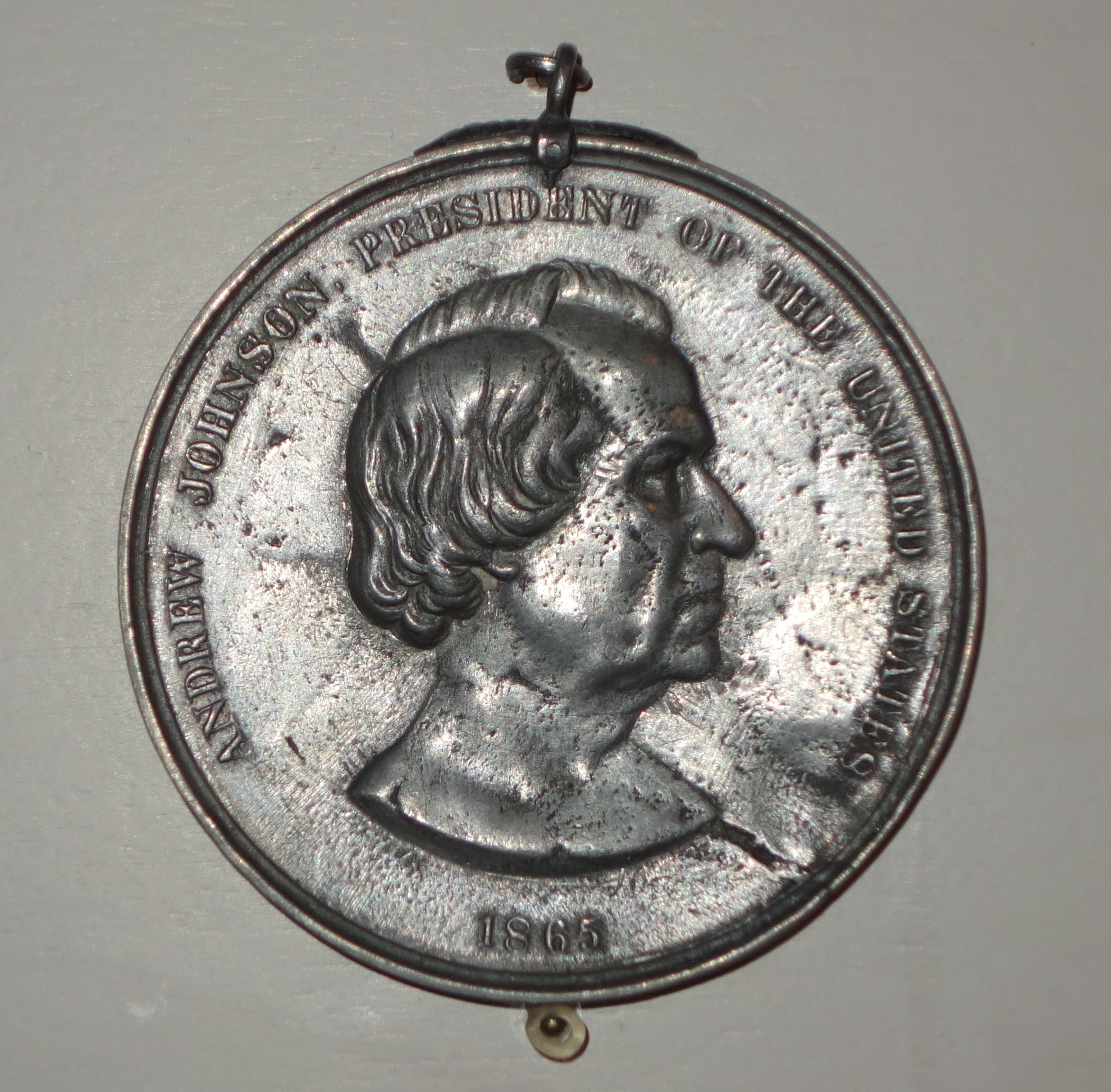 Exhibit in the Wisconsin Historical Museum, Madison, Wisconsin, USA. This item is old enough so that it is in the public domain.